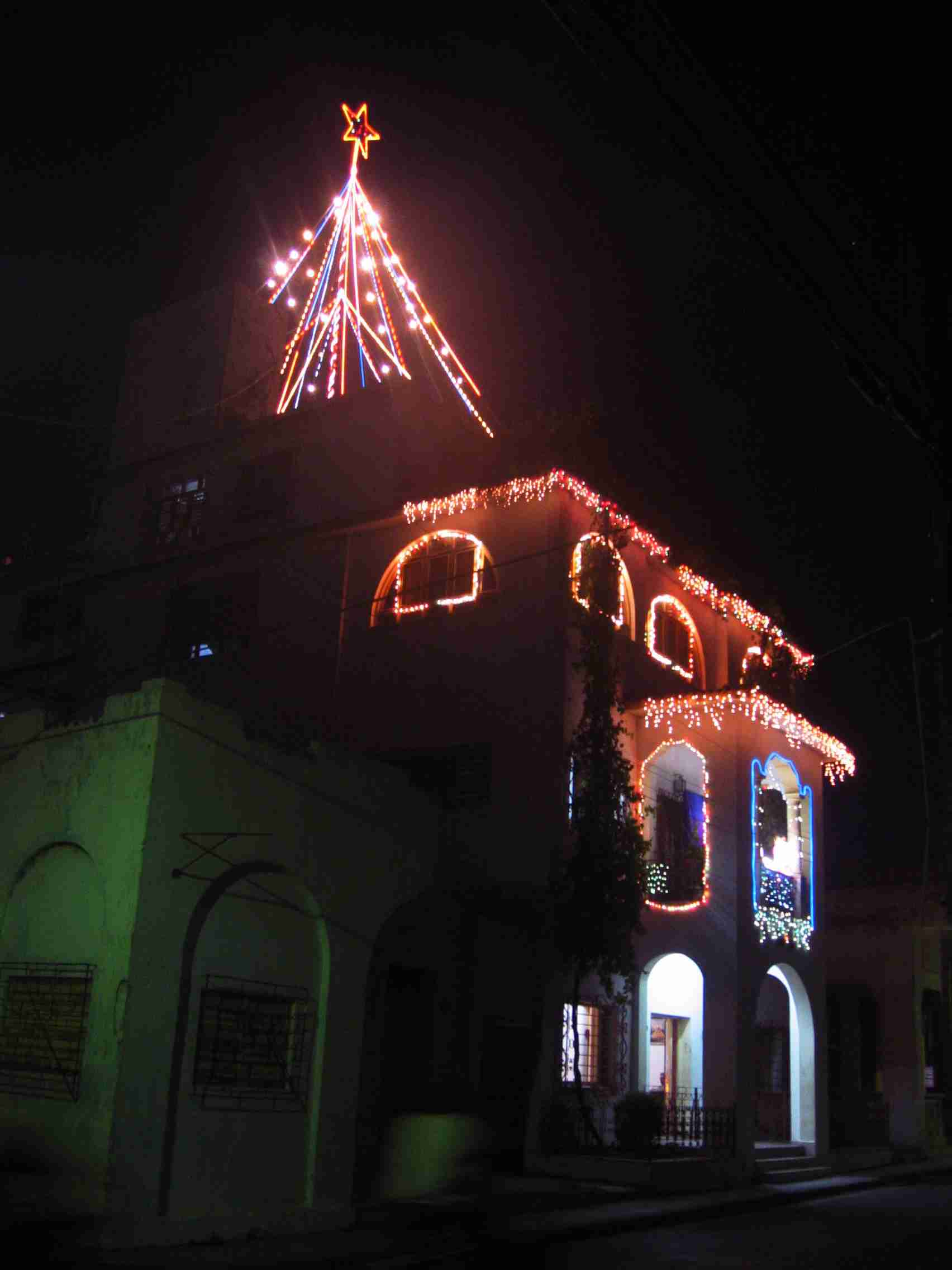 A house in Trinidad (Cuba) with Christmas decorations.